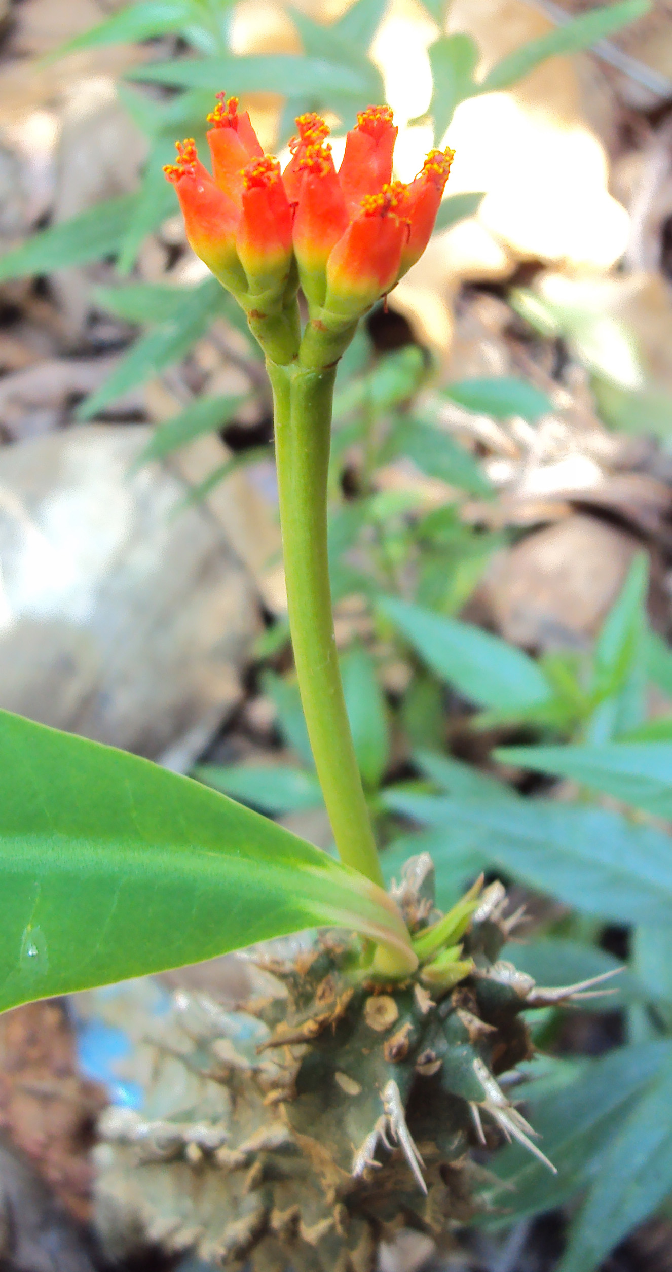 Flower